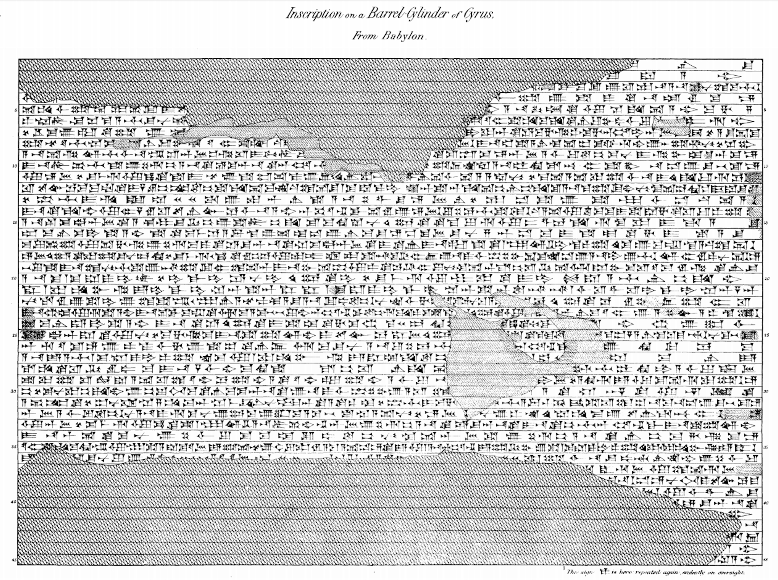 Barrel cylinder of Cyrus (transcription)